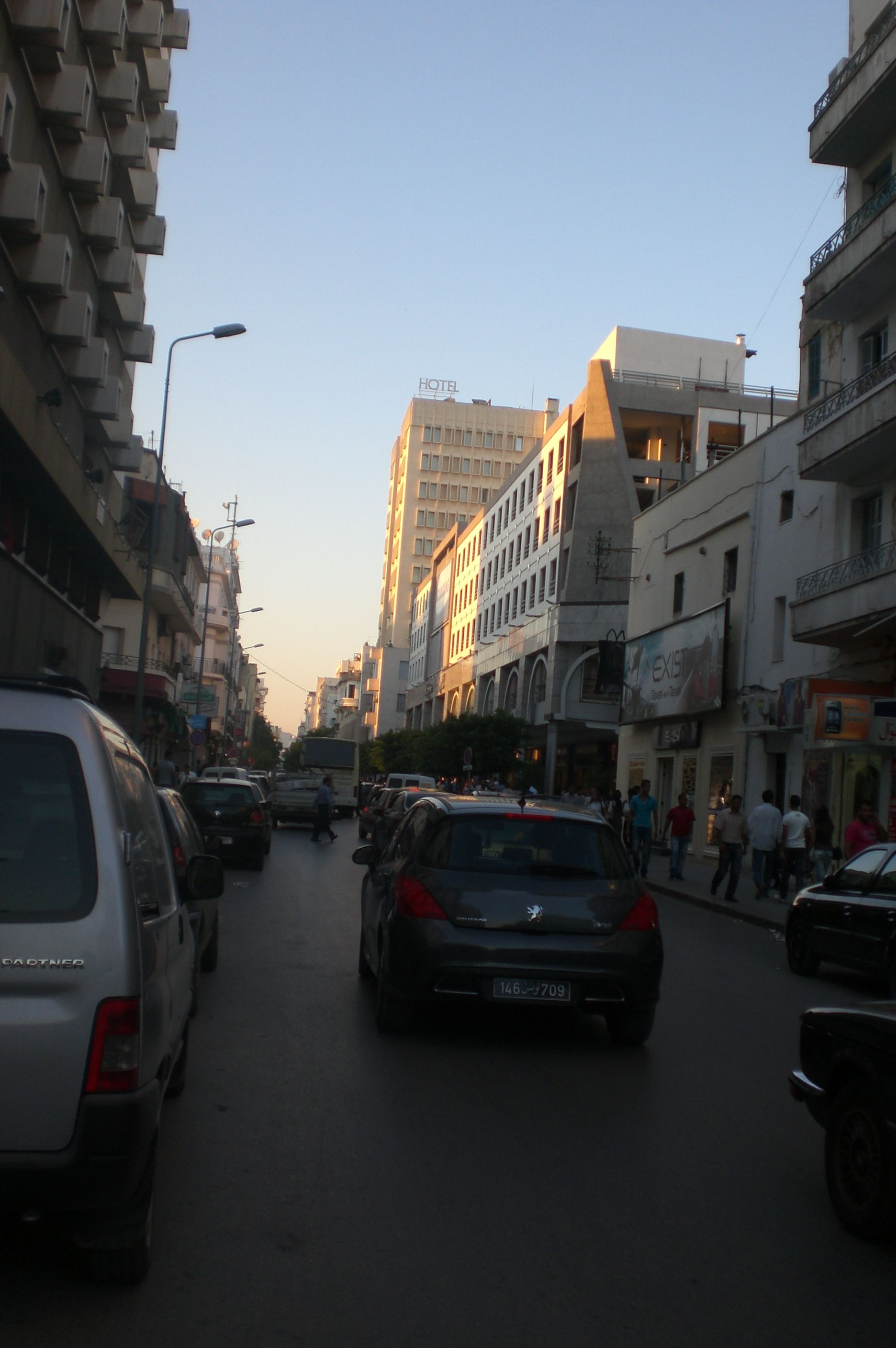 Rue Palestine in Tunis